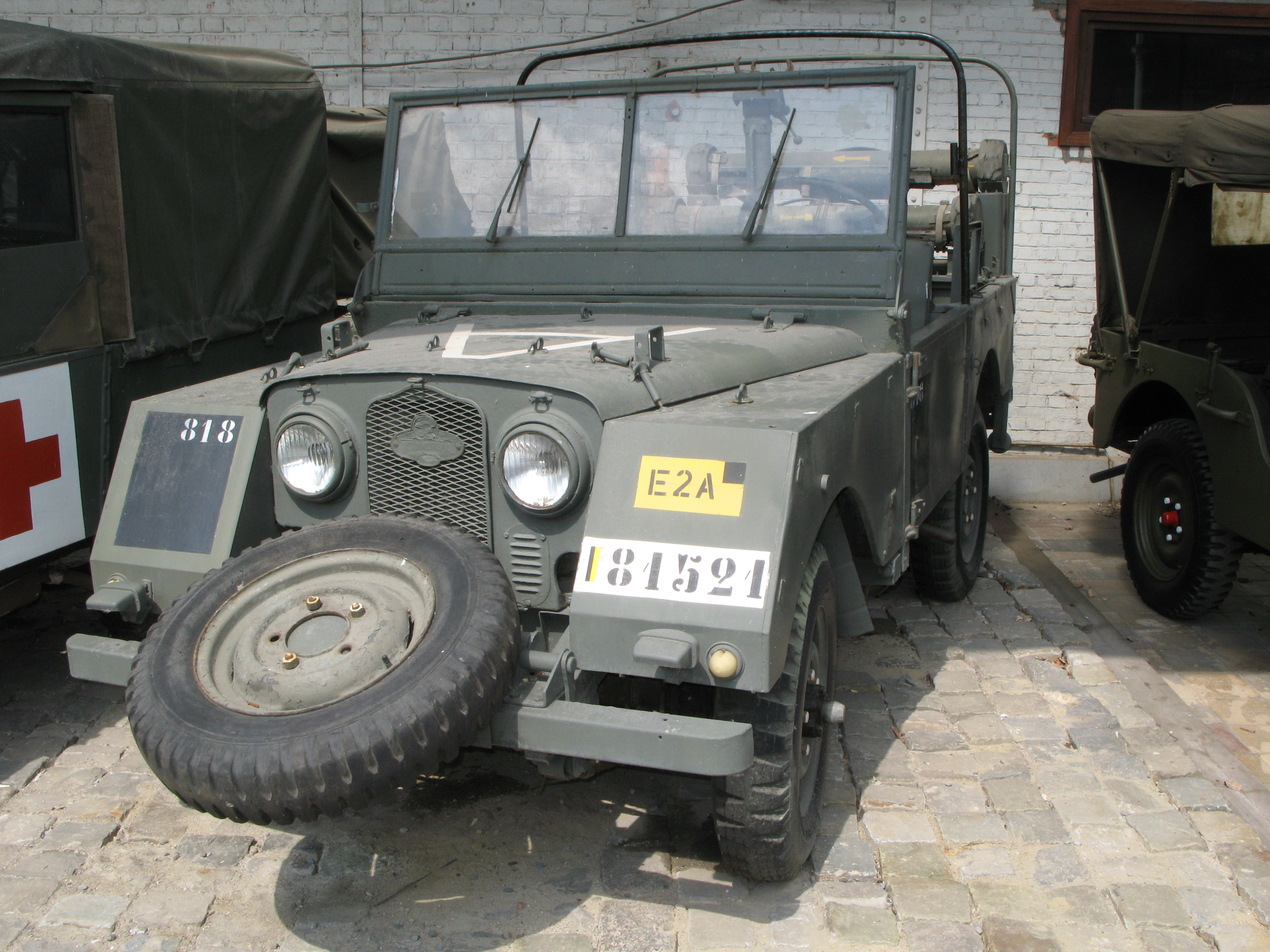 Minerva Land Rover